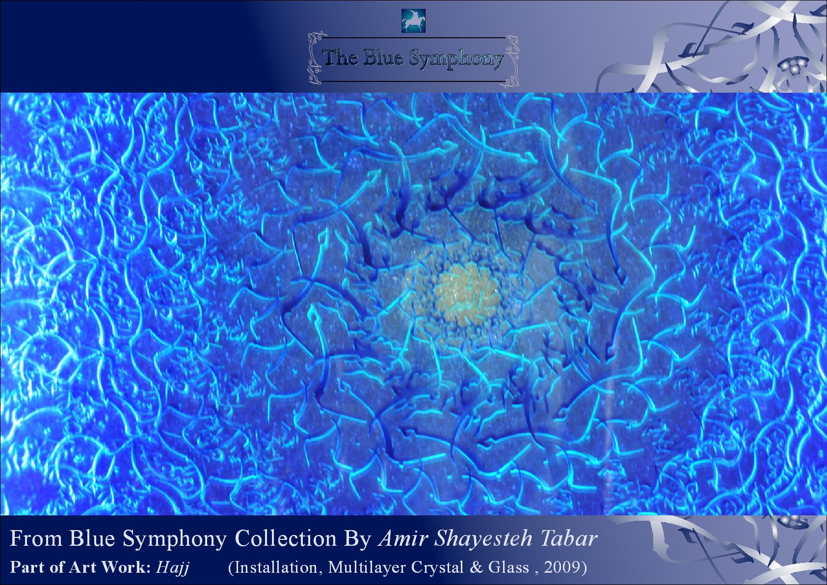 PHOTO From Blue Symphony Art Works by Amir Shayesteh Tabar, Hajj Art Work